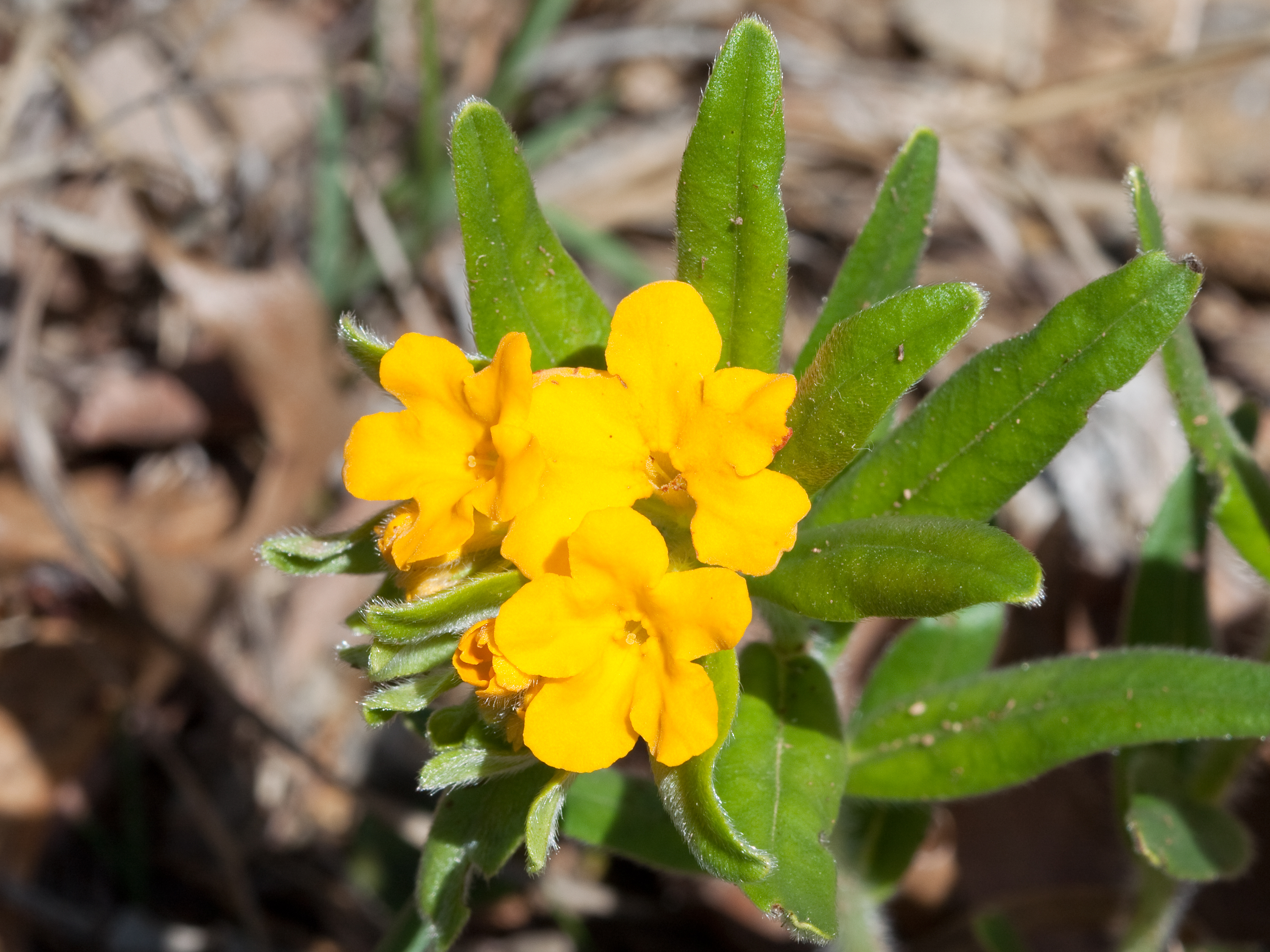 Hoary Puccoon (Lithospermum canescens) in Rutherford County, Tennessee